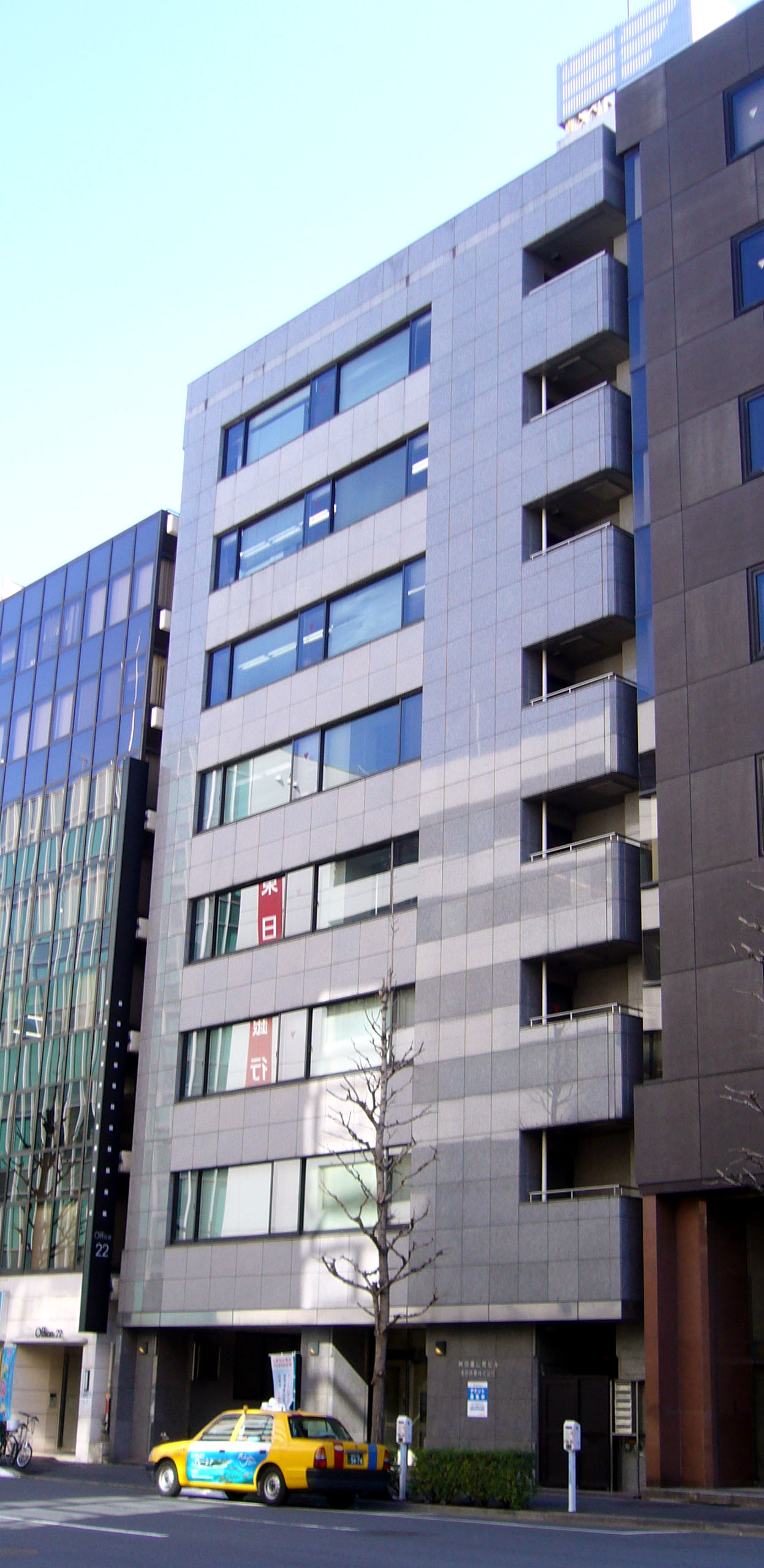 Asano Shoji (Japanese business company)